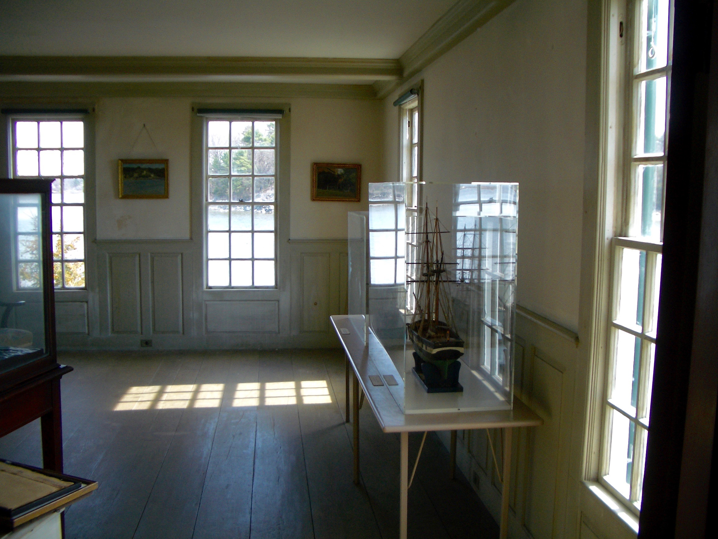 Wentworth-Coolidge Mansion, Coolidge era guest room, added at turn-of-the-twentieth-century, now used to exhibit objects associated with Coolidge occupancy of the mansion.